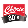 The logo of Chérie FM